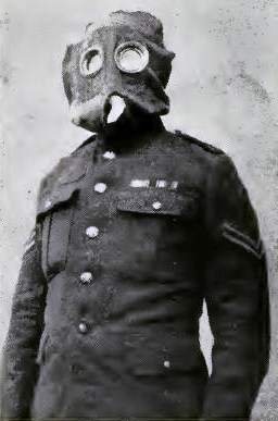 Photograph of a British "P" or "PH" helmet